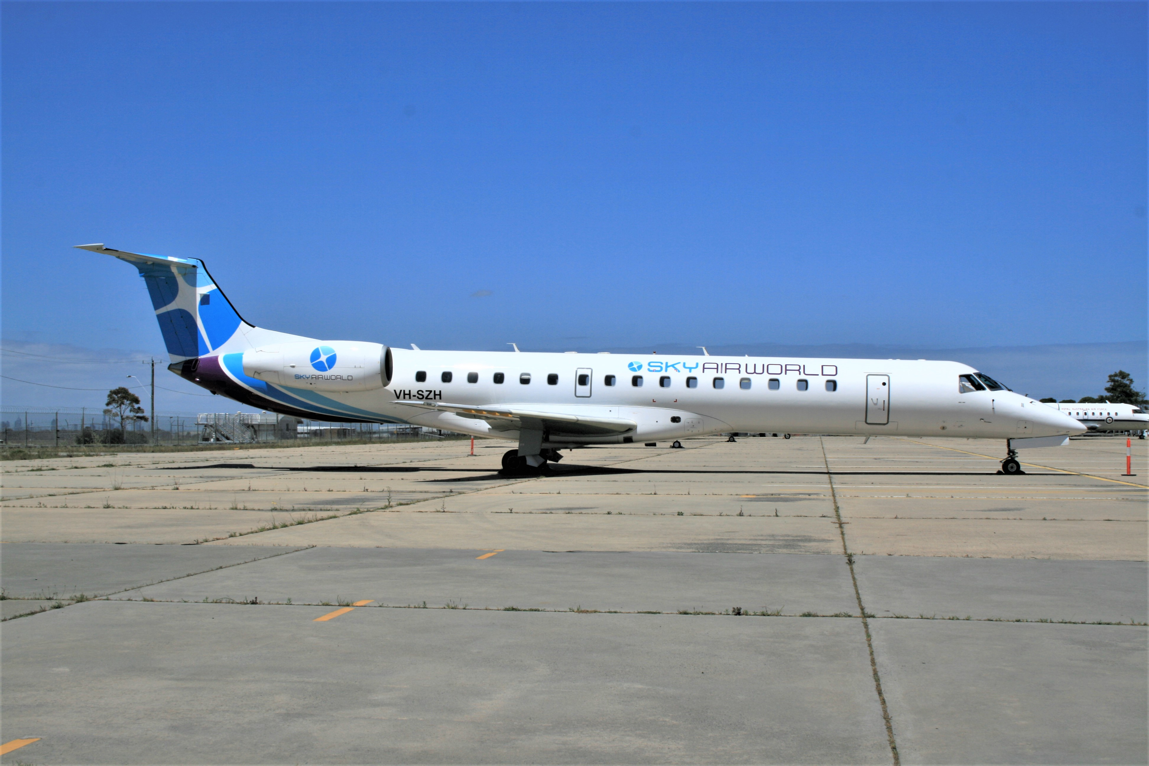 A SkyAirWorld Embraer EMB-145 at Melbourne Airport. Digital photo of VH-SZH taken by YSSYguy on 4 November 2008 and uploaded for use in the SkyAirWorld article.